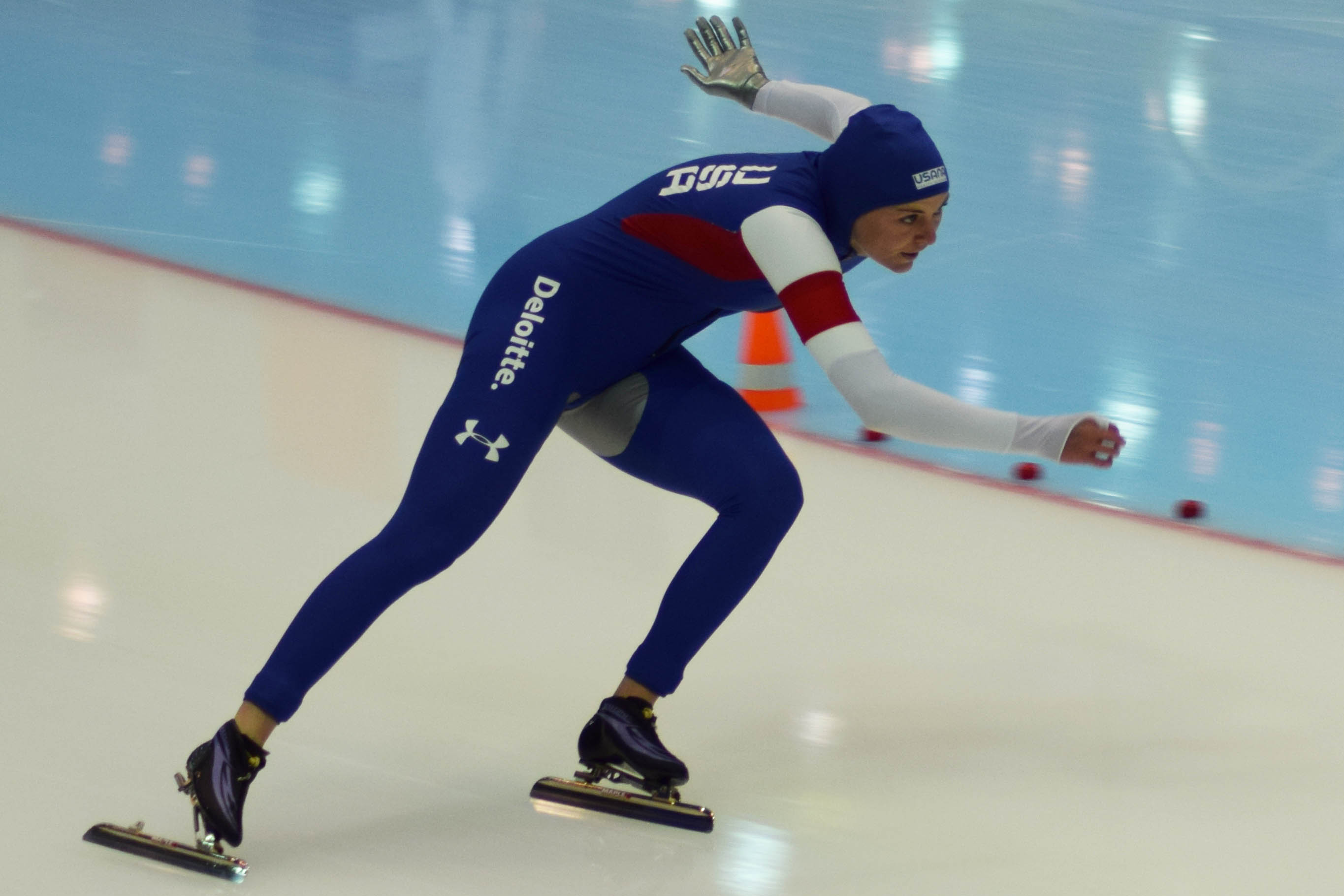 2016 World Single Distance Speed Skating Championships